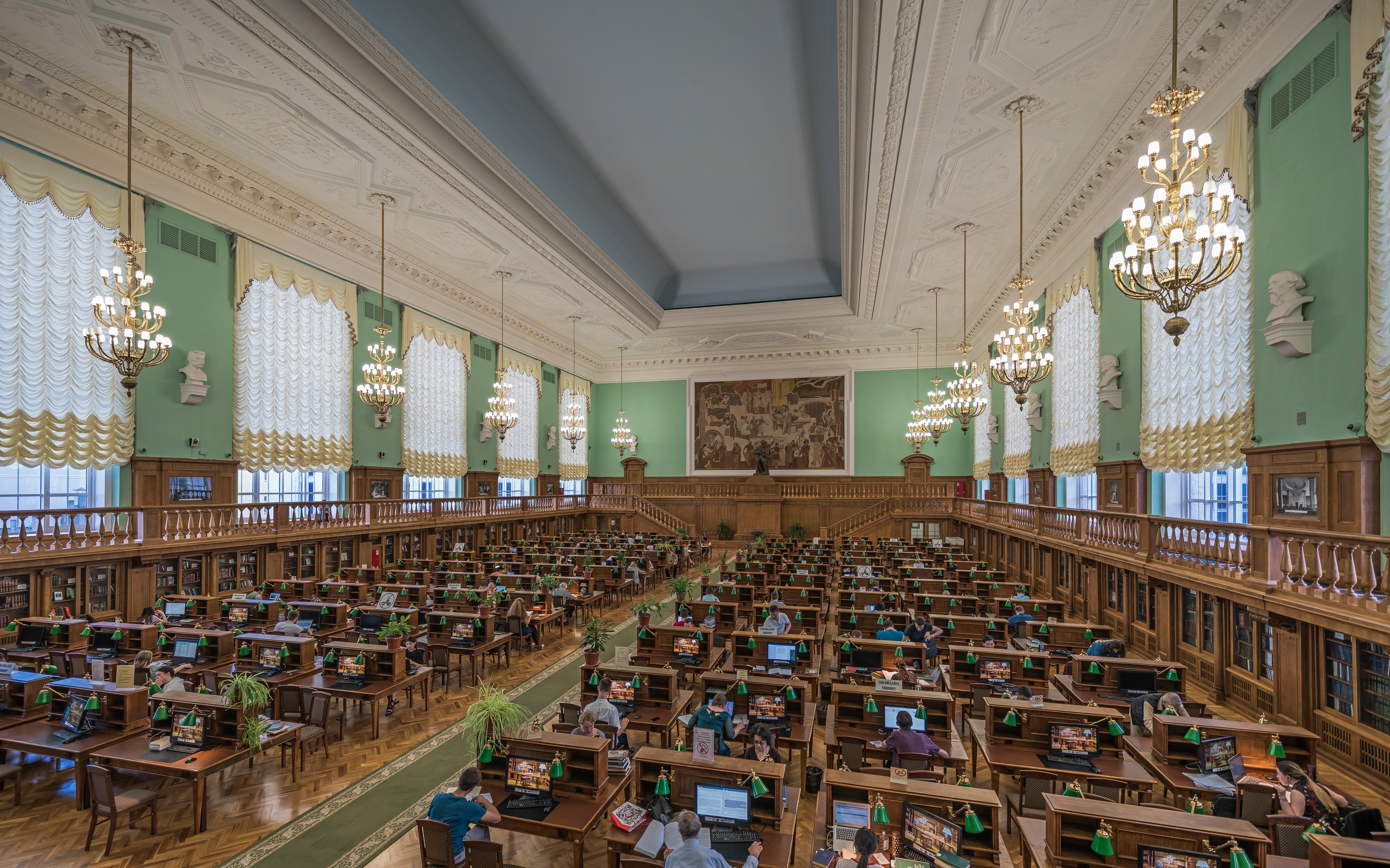 Interior of the main building of Russian State Library in Moscow, Russia